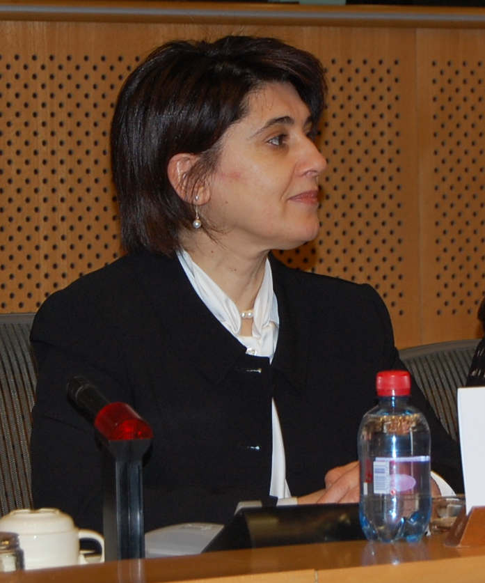 Kurdish activist Leyla Zana in Brussels, February 3. 2010